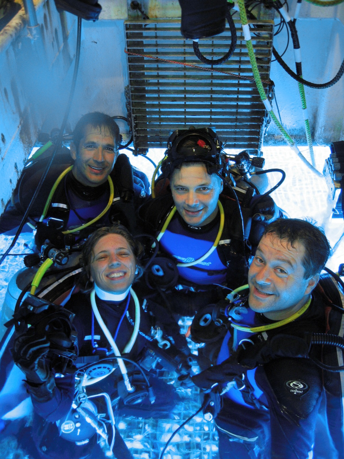 Equipped with SCUBA gear, the NEEMO-6 crewmembers arrive at the Aquarius habitat following a session of underwater extravehicular activity (EVA). From the left (back row) are mission commander and NASA astronaut John Herrington and astronaut Doug Wheelock. From the left (front row) are biomedical engineer Tara Ruttley and astronaut Nick Patrick.